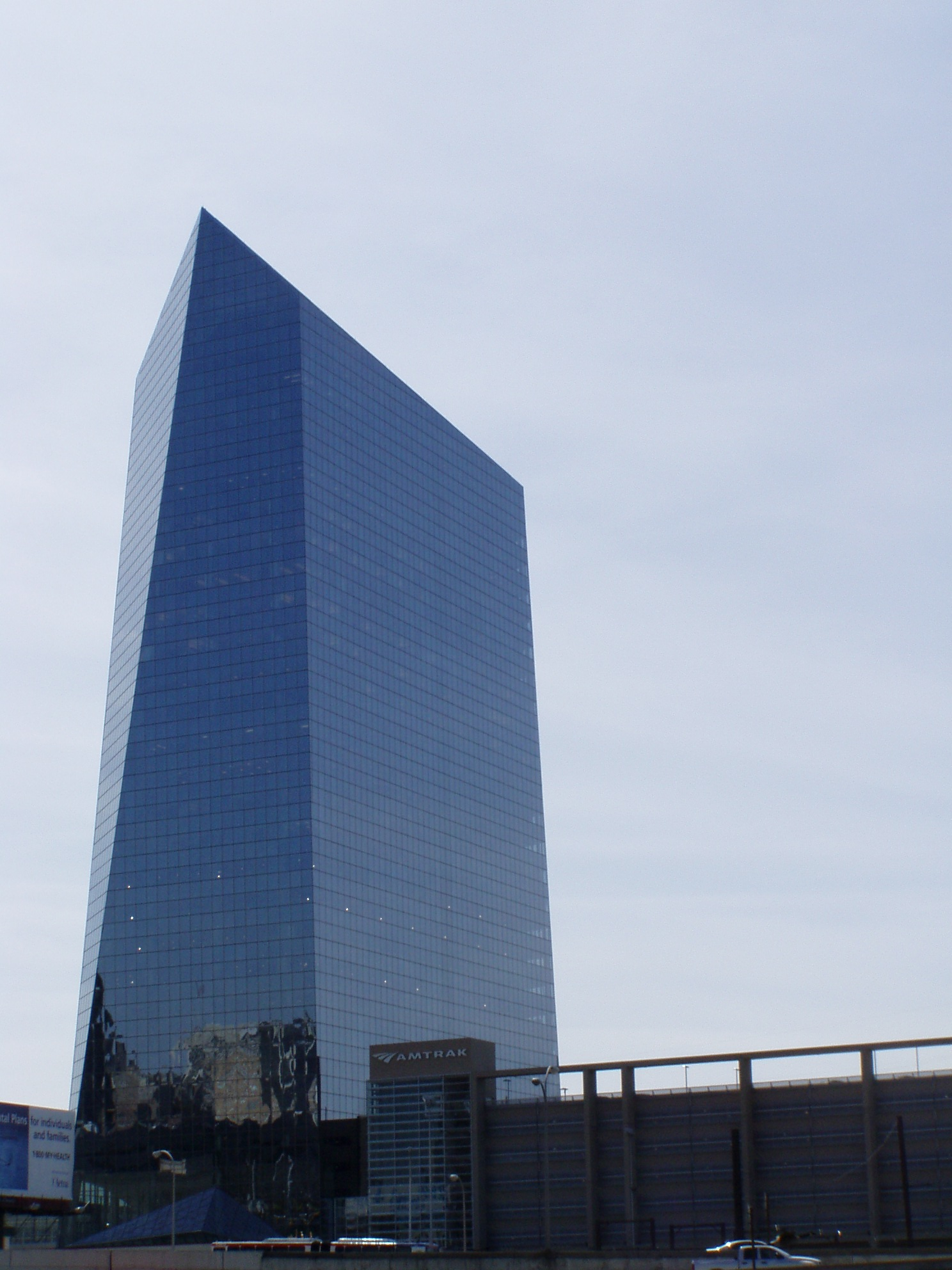 Taken in Philadelphia, Pennsylvania, in April 2006. The eastern aspect of the Cira Centre in Philadelphia.